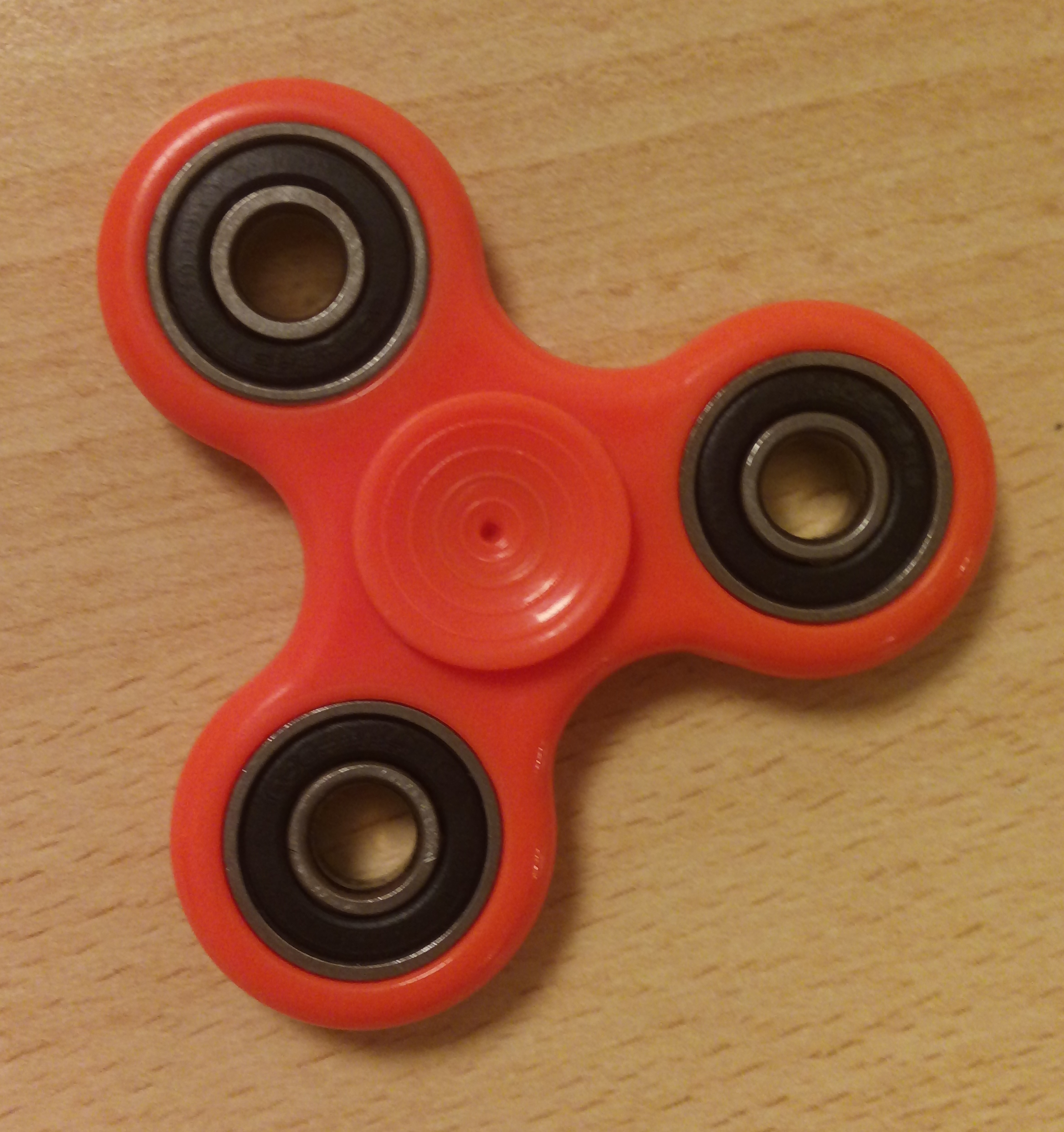 An orange Fidget spinner